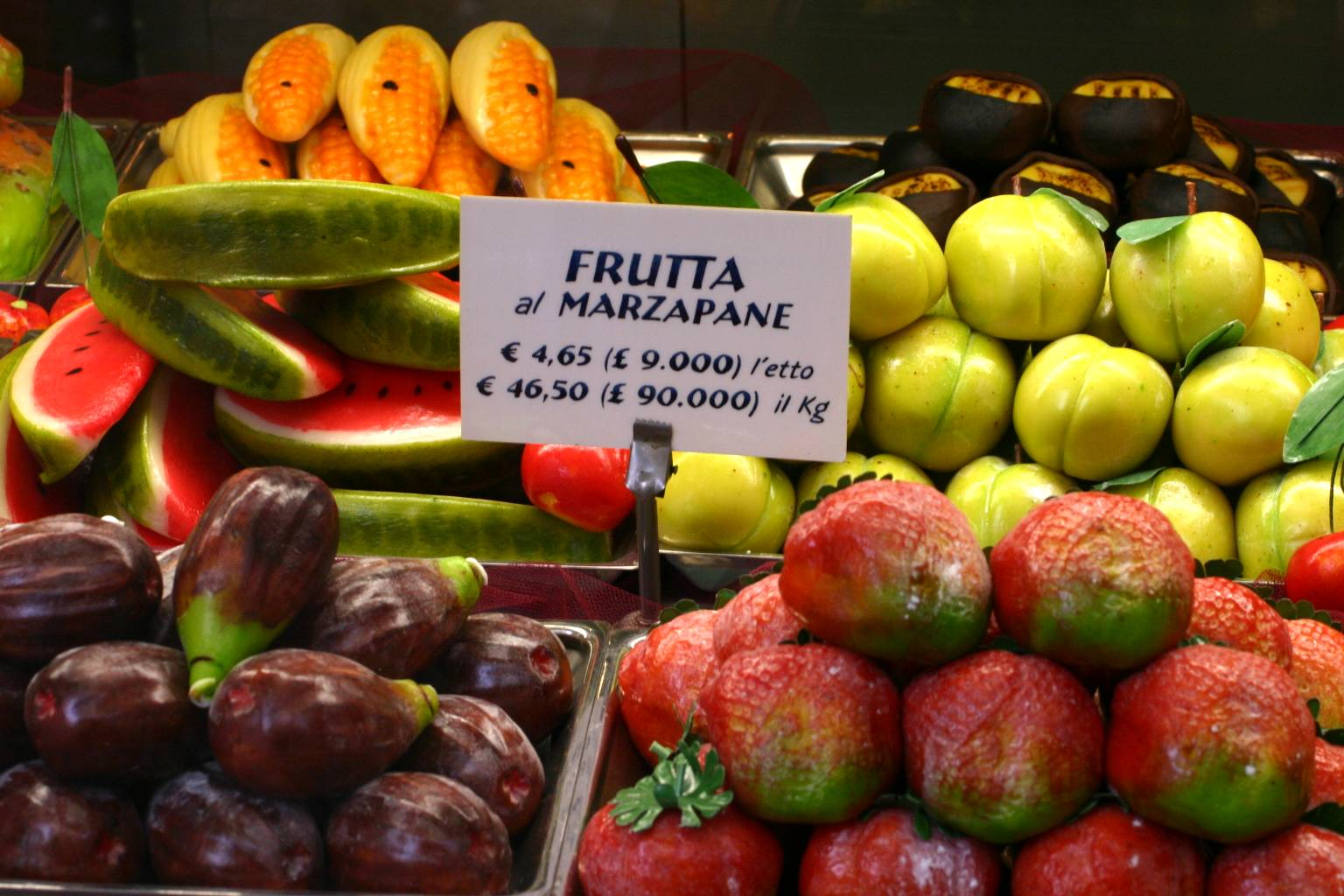 Fruit-shaped marzipan at a market in Italy. Taken by Flickr user in Florence in February 2004.